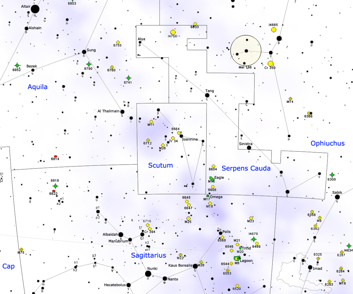 Map of Scutum